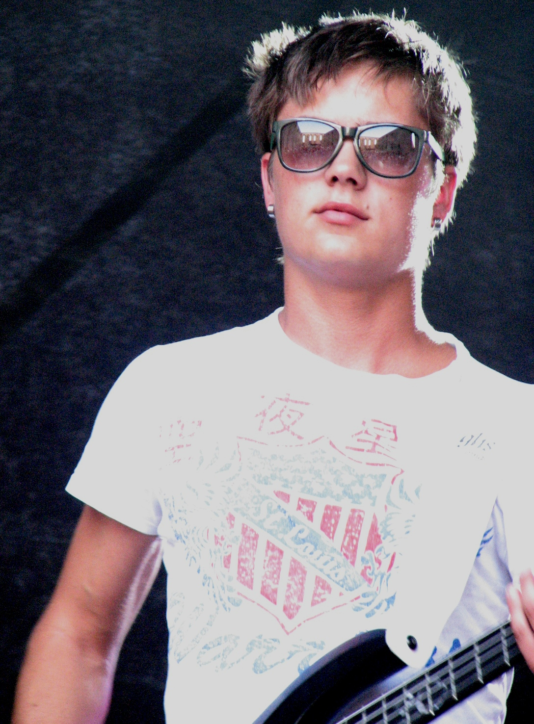 Silver Haugas performing in SunFest 2010 in ruins of Pirita monastery